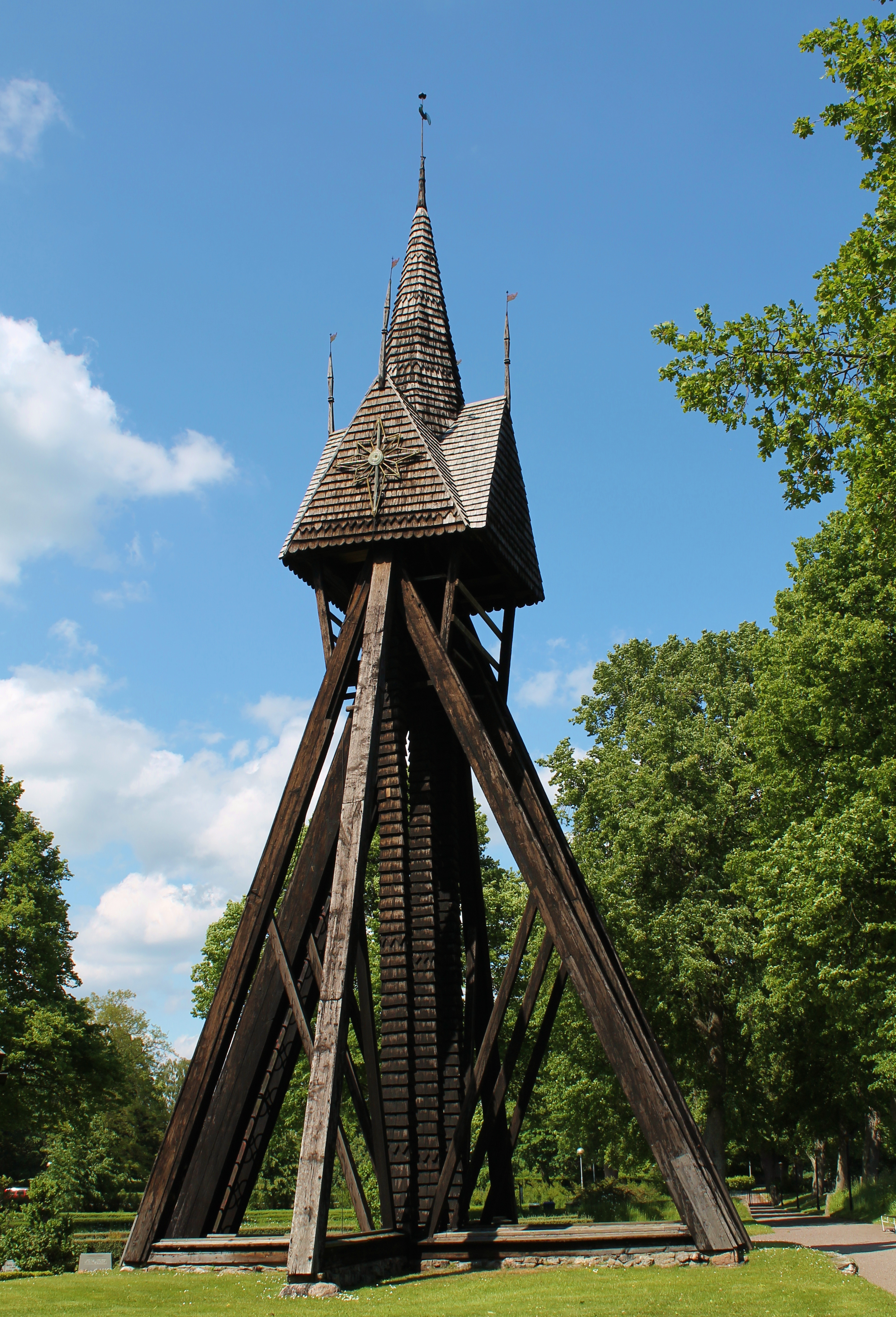 Dörby church. The bell tower.